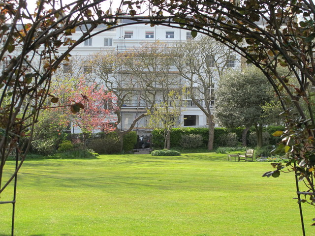 Gardens at Sussex Square, BN2